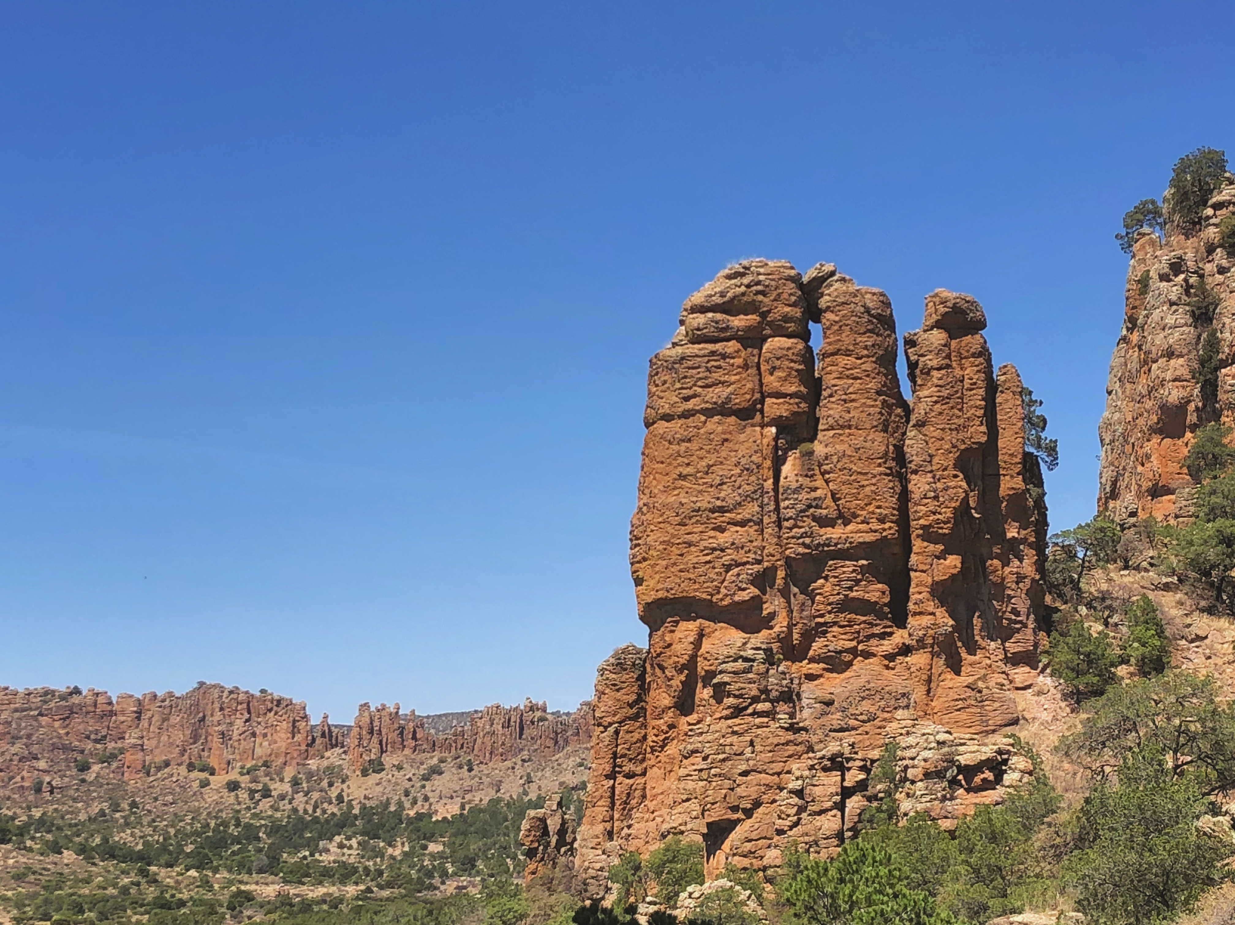 Sierra de Organos National Park